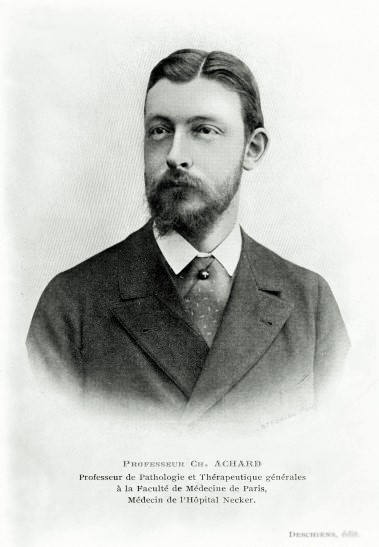 M0016644 Portrait of Emile Charles Achard Credit: Wellcome Library, London. Wellcome Images Portrait of Emile Charles Achard, Professor of Pathology at the Faculty of Medicine, Paris Photograph By: StebbingPublished: - Copyrighted work available under Creative Commons Attribution only licence CC BY 4.0